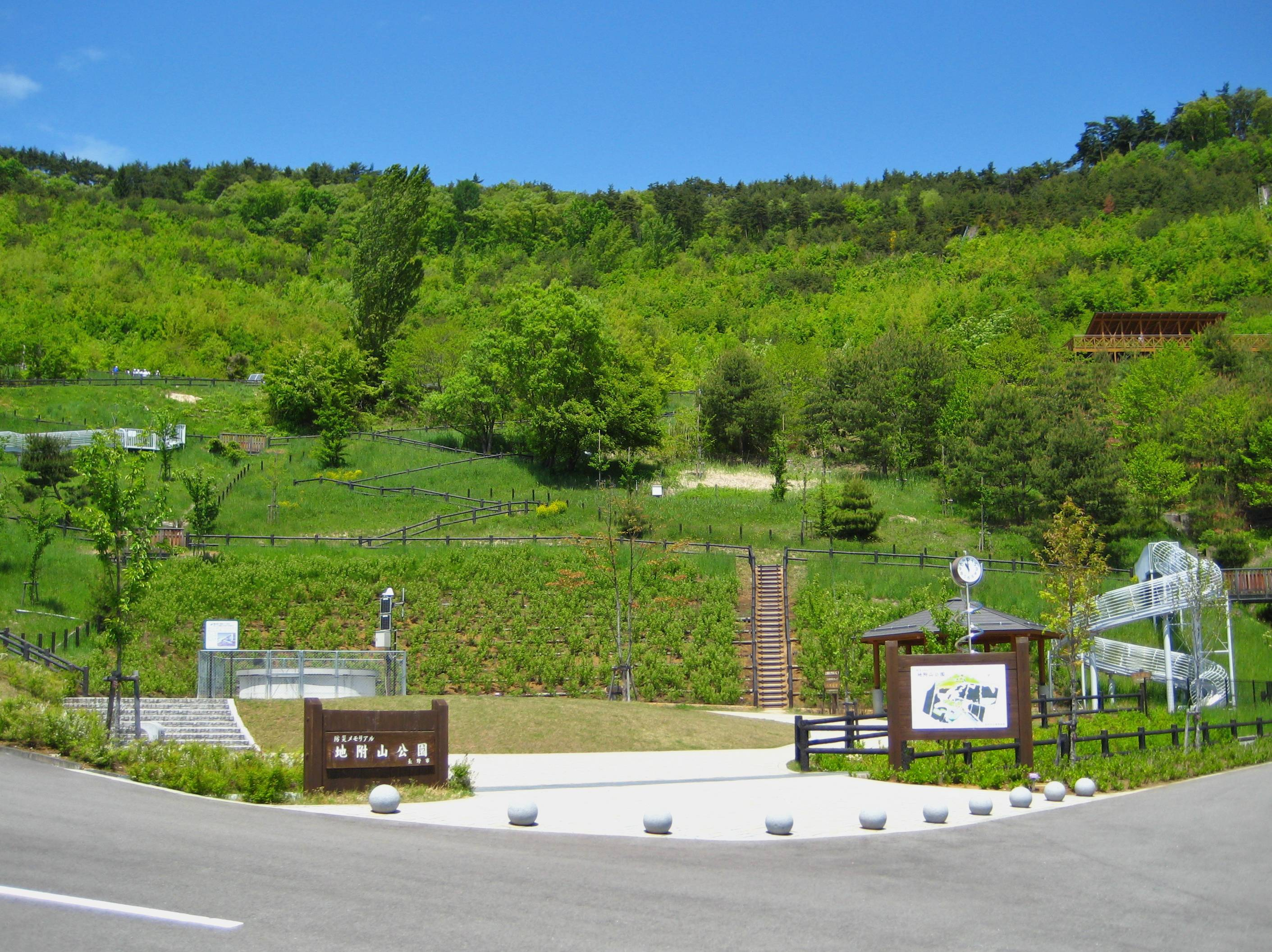 Jizukiyama park.